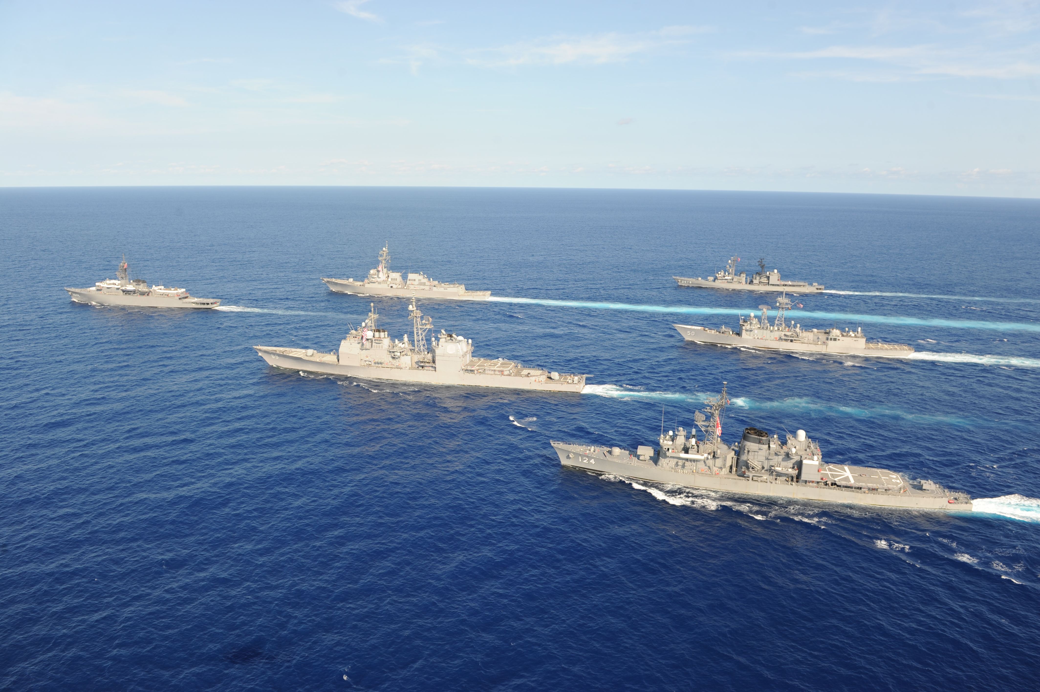 110731-N-ZR940-012 ATLANTIC OCEAN (July 31, 2011) Ships assigned to the Japan Maritime Self-Defense Force and the U.S. Navy participate in maneuvering drills as part of a passing exercise off the East Coast of the United States, from Virginia to Florida. The exercise is intended to provide realistic training environments that closely replicate the operational challenges routinely encountered around the world. (U.S. Navy photo by Mass Communication Specialist 3rd Class Zachary Montgomery/Released)